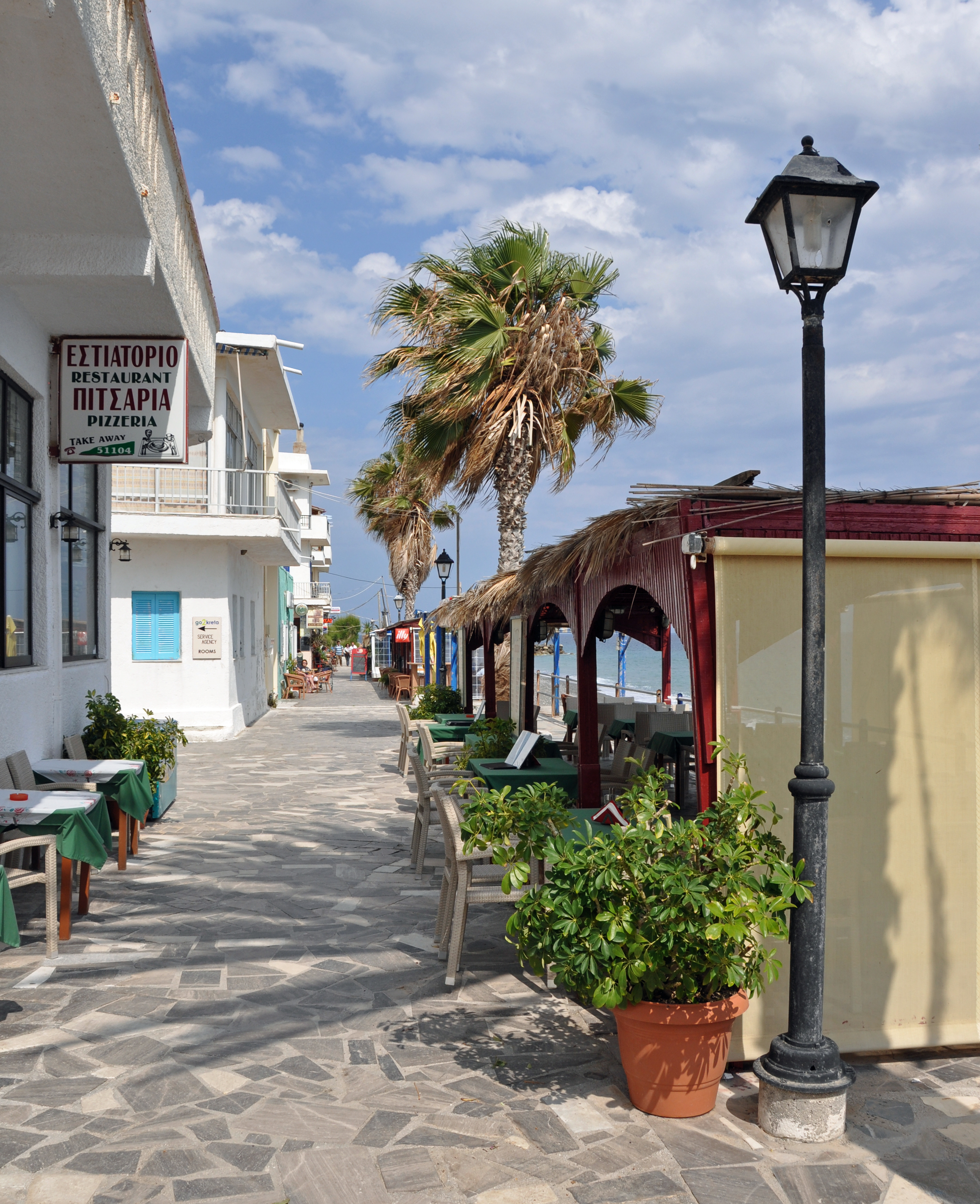 Myrtos (Crete, Greece): beach promenade